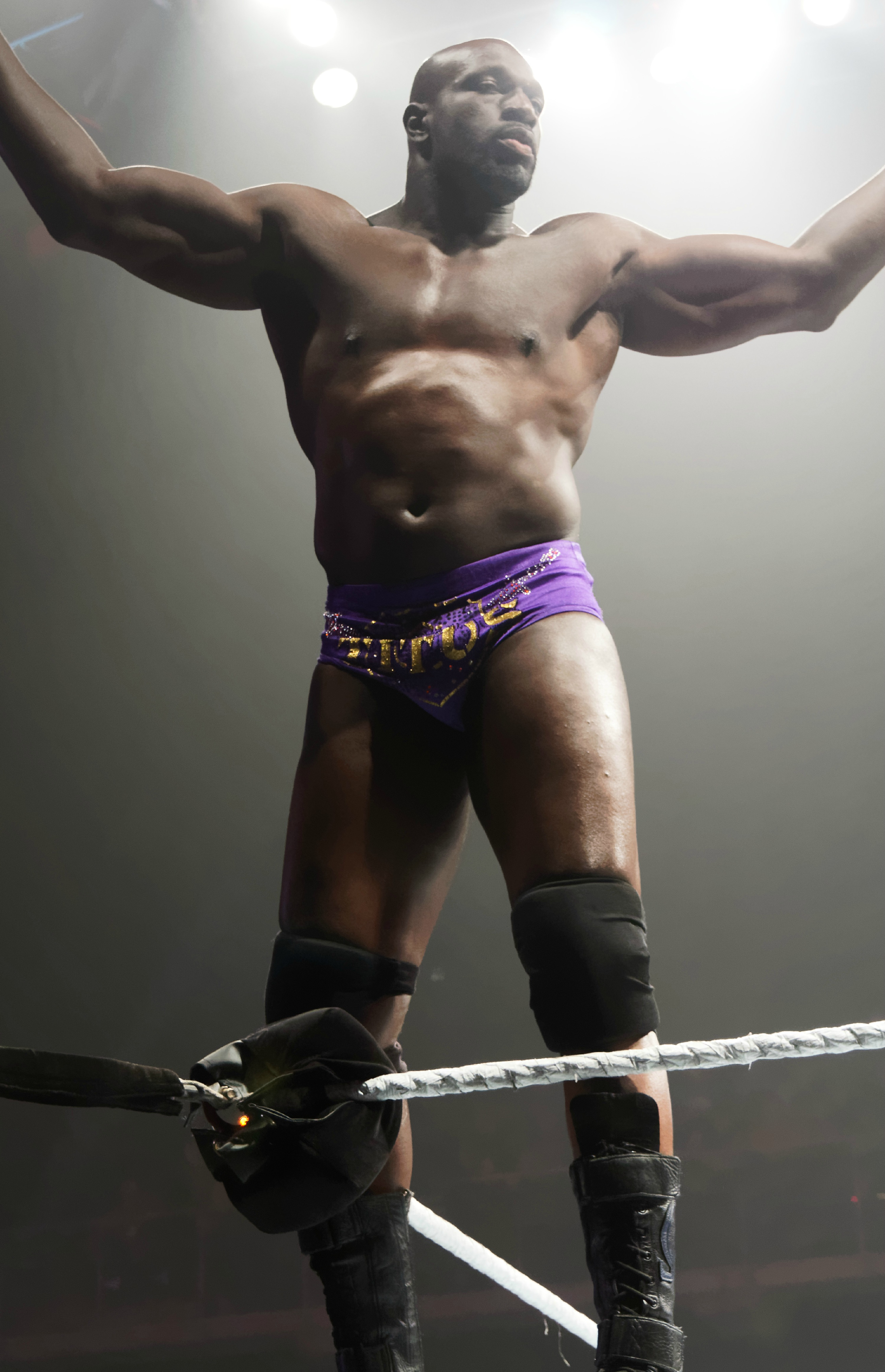 Titus O'Neil during a live event in 2015.